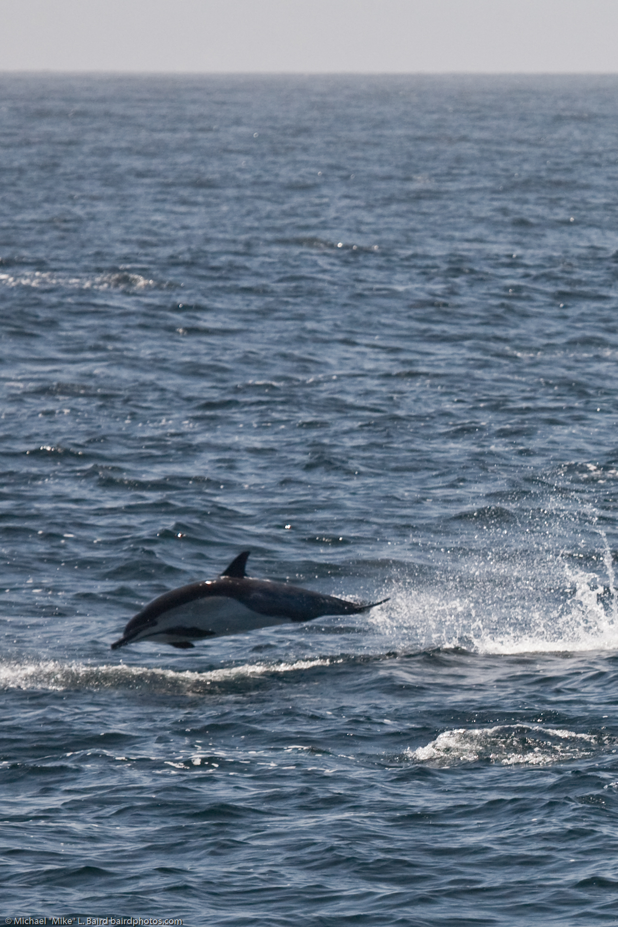 Common Dolphin of genus Delphinus. Ten of us docent types from Morro Bay, CA, take a 4-hour Whale Watching boat trip tour on the Condor Express out of Santa Barbara, CA, to Santa Cruz Island in the Channel Islands in Central-Southern California, on Labor Day 07 Sept 2009. Organized by Rouvaishyana of the CA State Park Museum of Natural History in Morro Bay, CA. Photo by Michael "Mike" L. Baird, mike [at} mikebaird d o t com, ; Canon 5D, Canon 100-400mm Lens with circular polarizer (which made a big difference) handheld on a moving boat. 16 Oct 2009. Big thanks to Flickr user chloeyzoard who clarifies that "this dolphin belongs to the Genus Delphinus and the species capensis, also called the long-beaked common dolphin, different from the short-beaked common dolphin (Delphinus delphis)."